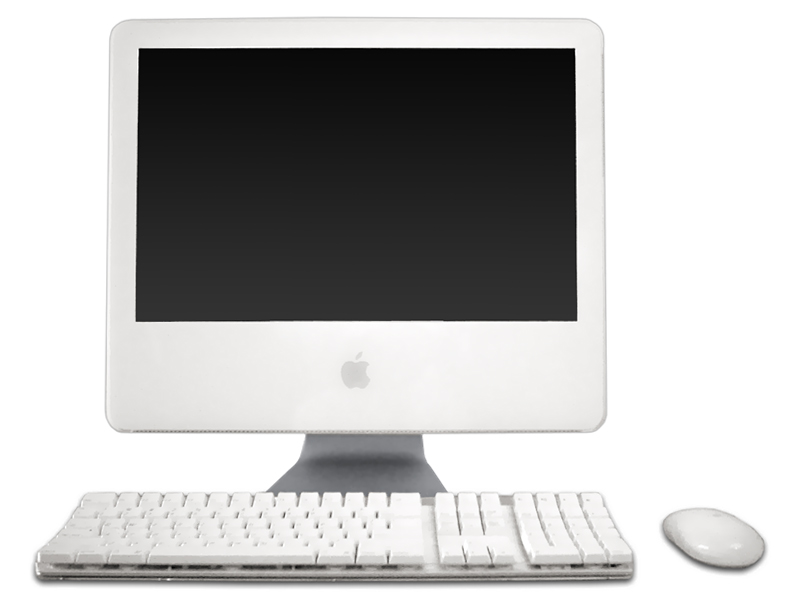 An iMac G5 17" (Rev. A or B) with an Apple wireless keyboard and wireless mouse.Face Forward